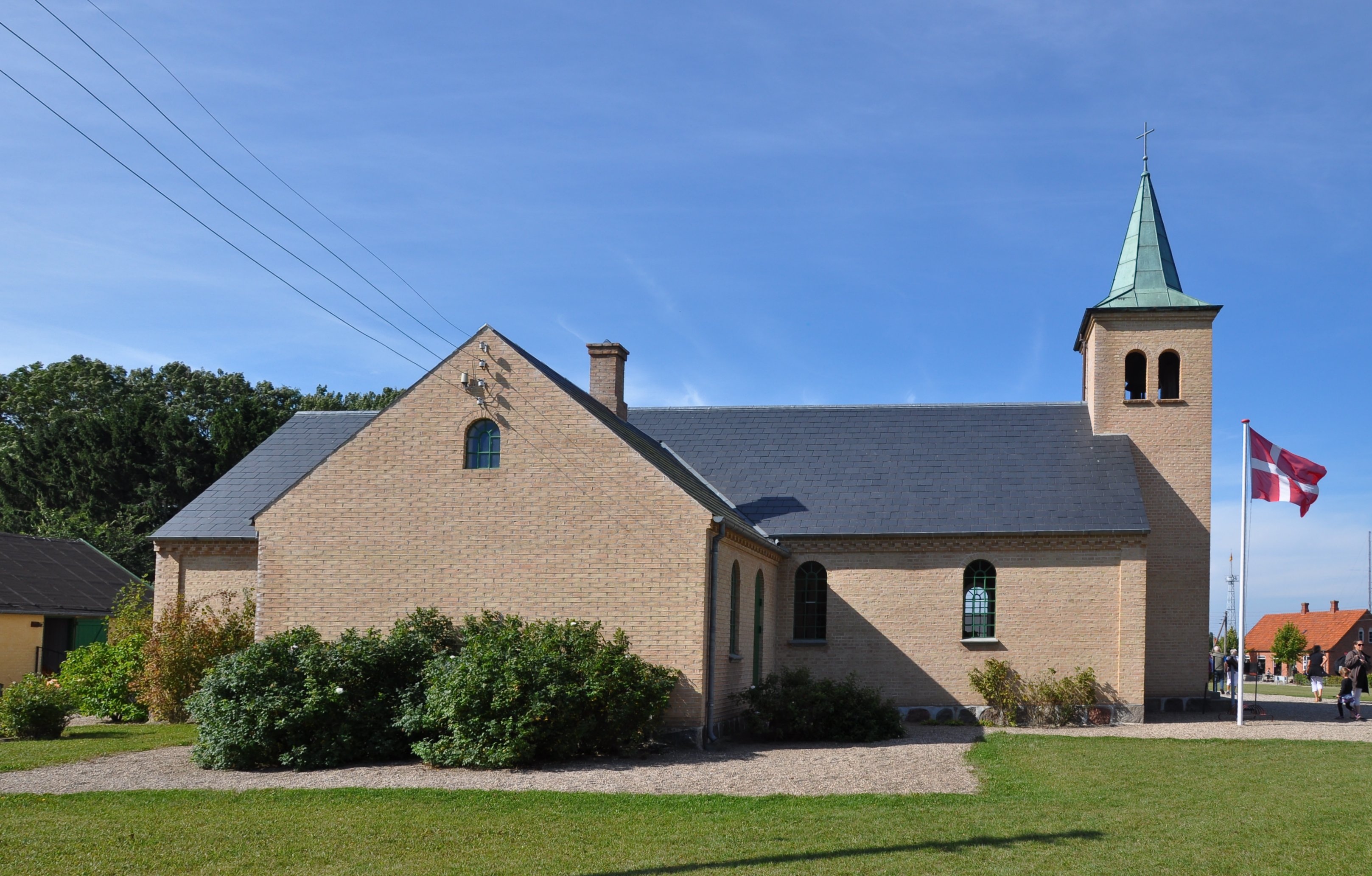 Church of Saint Stephen in the co-operative village of Nyvang, Denmark.